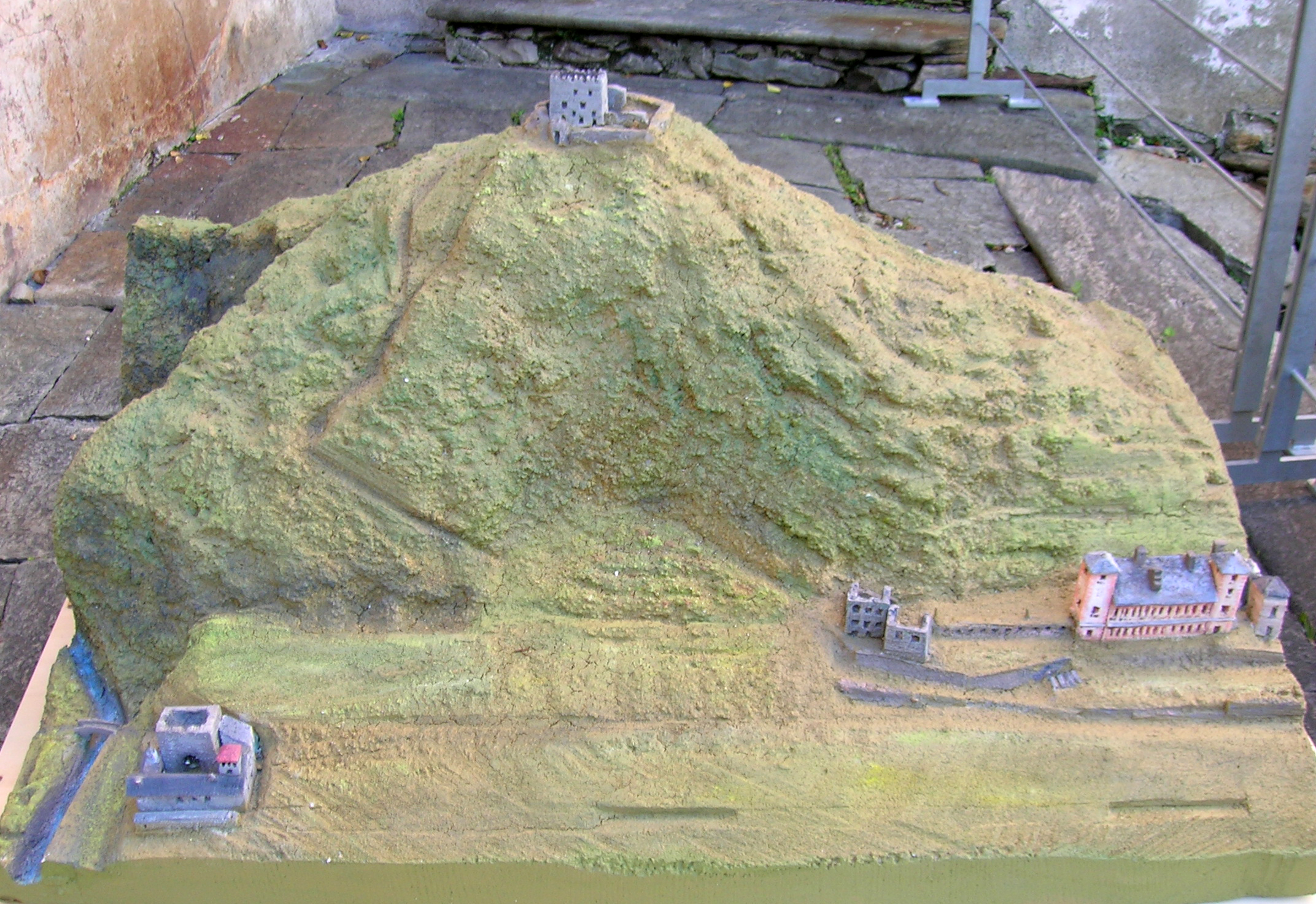 Castles in Arnad, Valle d'Aosta, Italy.